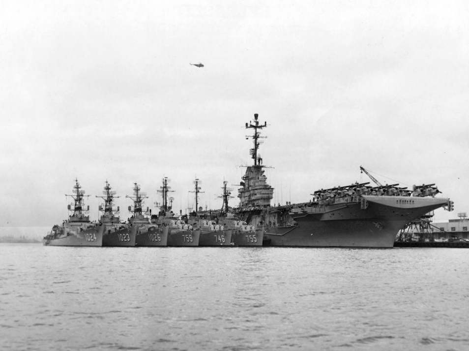 The U.S. Navy aircraft carrier USS Kearsarge (CVS-33) with the escorts of her "Hunter-Killer Group" at San Diego, California (USA), in 1961. Visible are (l-r): USS Bridget (DE-1024), USS Evans (DE-1023), USS Hooper (DE-1026) all of CORTRON THREE; USS Lofberg (DD-759), USS Taussig (DD-746) and the USS John A. Bole (DD-755), all of DESDIV 72, and USS Kearsarge (CVS-33).